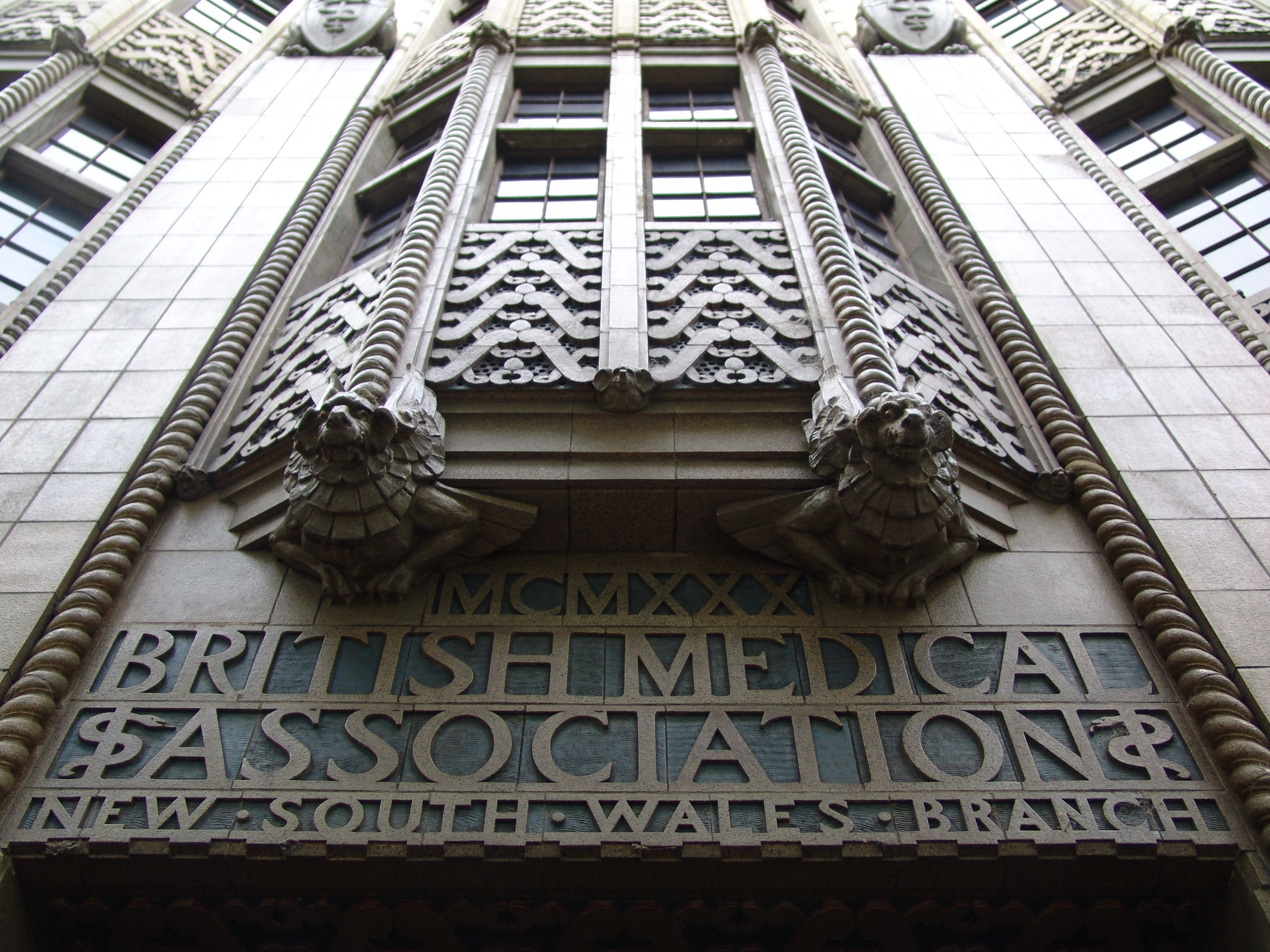 The entrance of the British Medical Association, New South Wales Branch building at 135-137 Macquarie Street, Sydney, Australia.